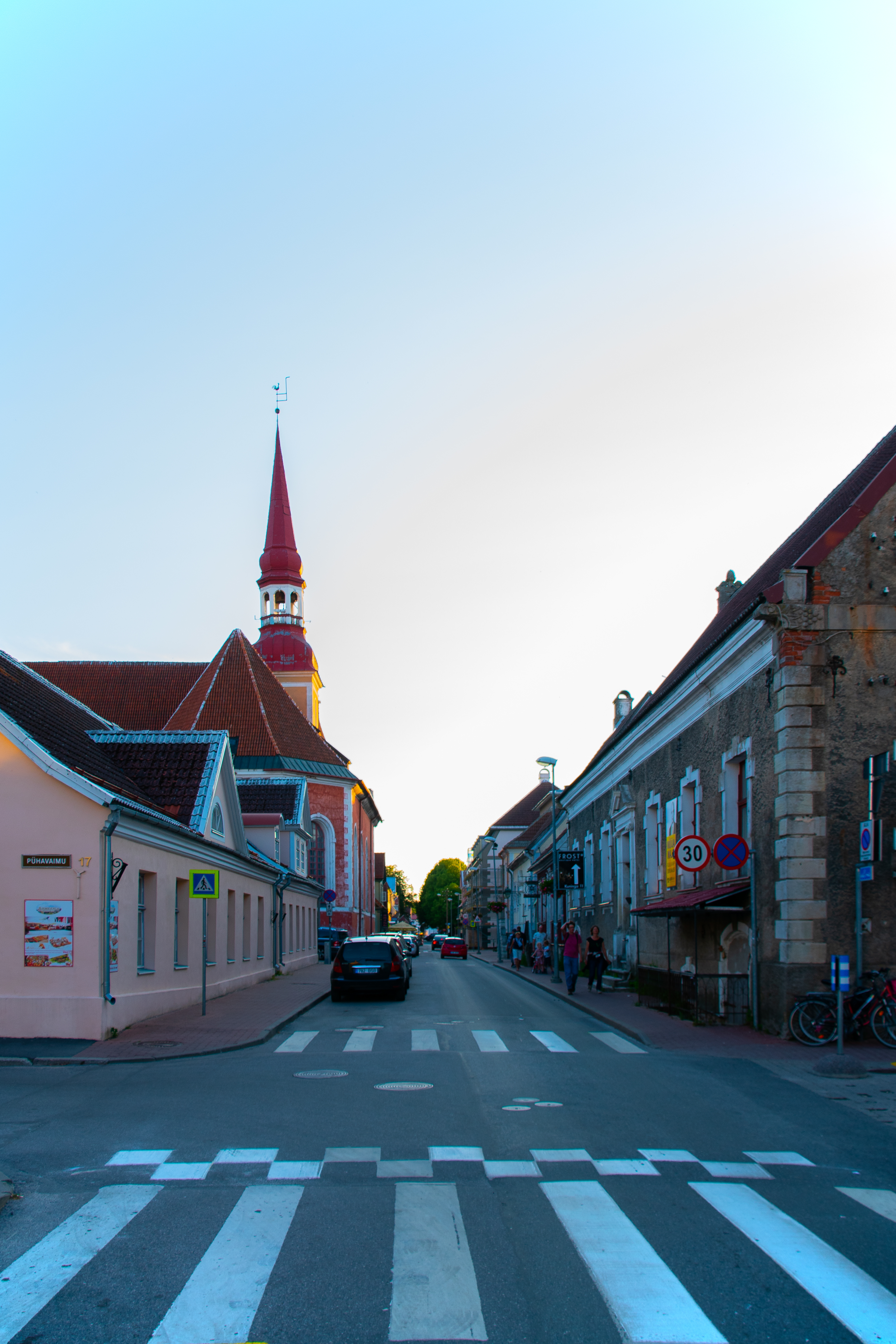 Kuninga street with St. Elizabeth's Church in the background